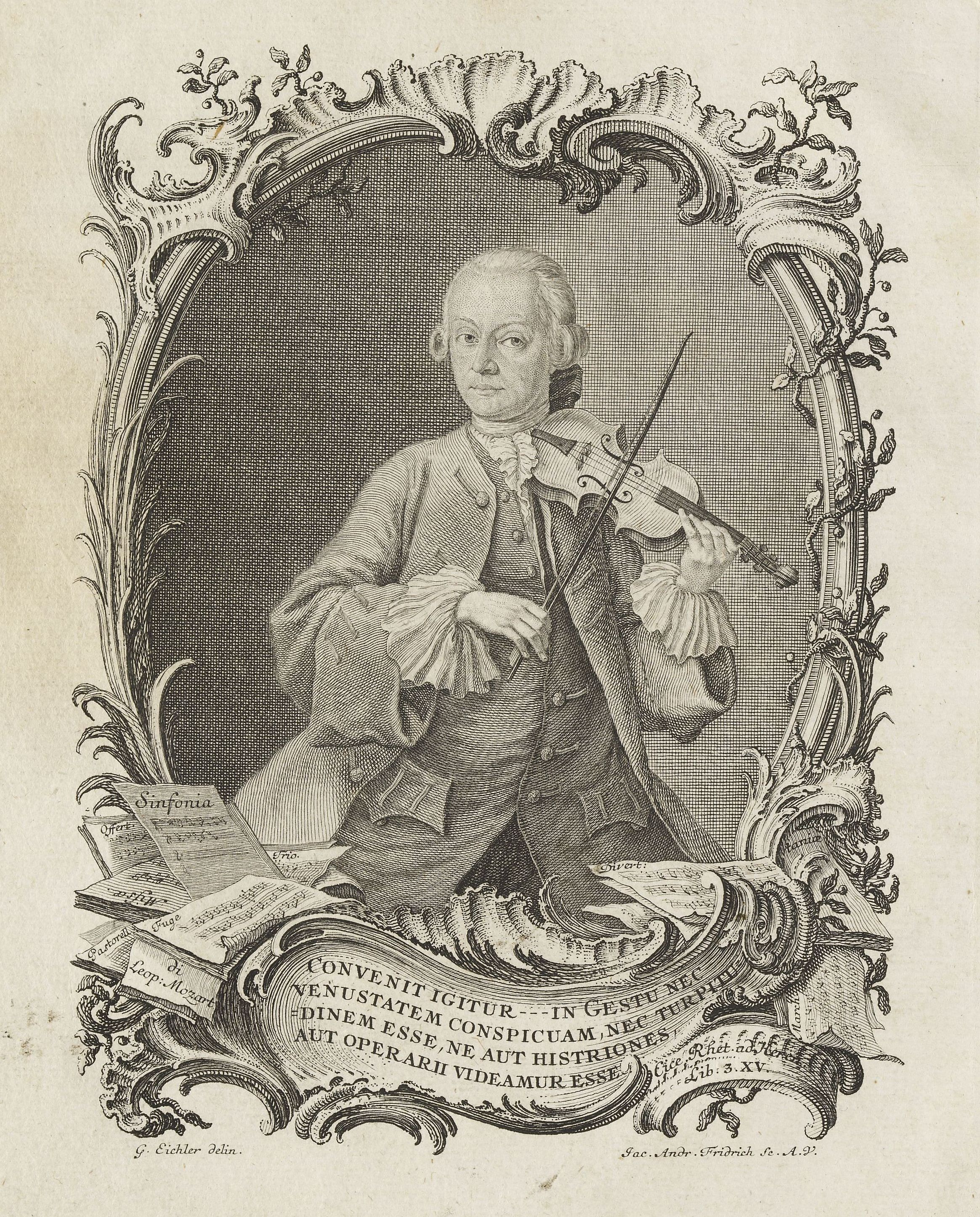 Portrait of Leopold Mozart from his 1756 book Versuch einer Gruendlichen Violinschule